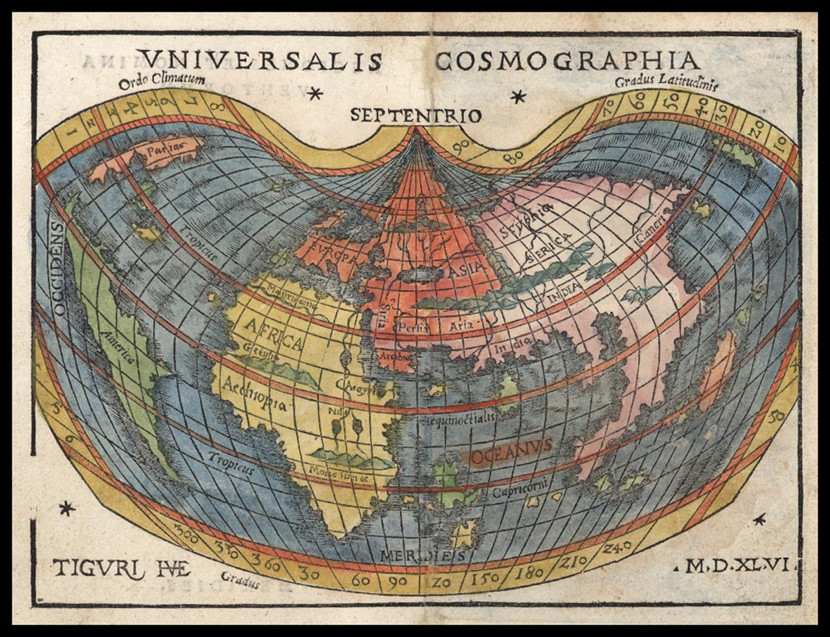 This tiny world map dating from 1546 reflects the extraordinary influence of Martin Waldseemüller's now-famous 1507 cordiform (heart-shaped) wall map of the world Universails Cosmographia Secundum Ptholomaei Traditionem et Americi Vespucii Alioru[m] que Lustrationes… in which Waldseemüller first coined the name "America" for a continent. The little map's creator, Johannes Honter (1498-1549) was born in Kronstadt (today Brasov, Romania) and later worked in Vienna, Regensburg, Krakow, Nuremberg, Basel, and Kronstadt, where with his liberal humanist education he became a respected educator, evangelical pastor, town magistrate, and councilor. While in Regensburg, Bavaria, Honter visited nearby Ingolstadt, where he became friends with humanist, mathematician, astronomer, and cartographer Peter Apian (1495-1552), who in 1520 had created the first copy of Waldseemüller's wall map to appear in a book. The original woodcut for Honter's map was made in Zurich (hence the Latin "Tiguri" seen in the bottom left corner by the initials of the map’s engraver Heinrich Vogtherr the Elder) "at great cost" according to the accompanying text of Rudimenta Cosmographica....